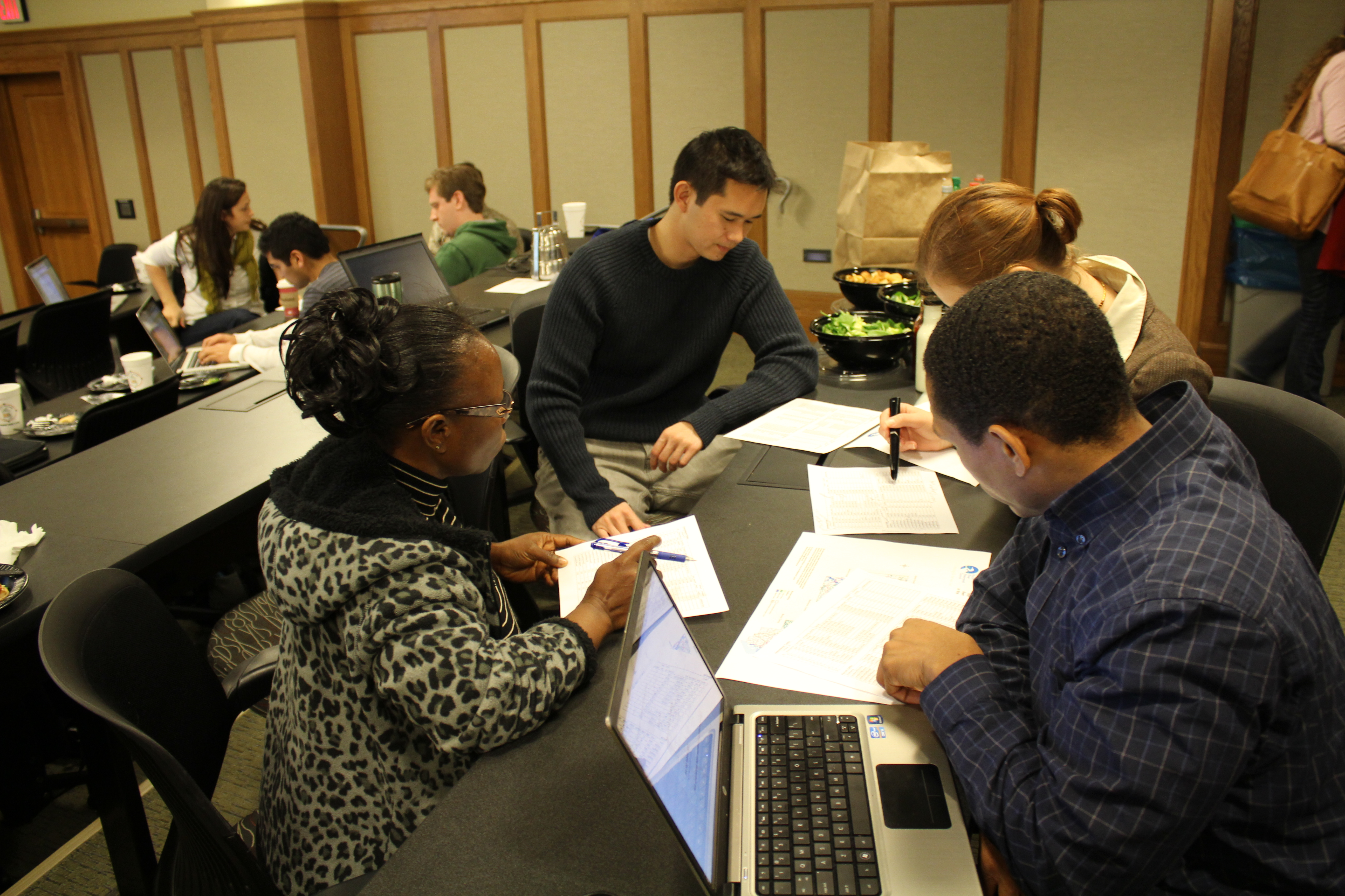 Volunteers reviewing data from the Huron River Watershed Council for the 2013 Ann Arbor Data Dive